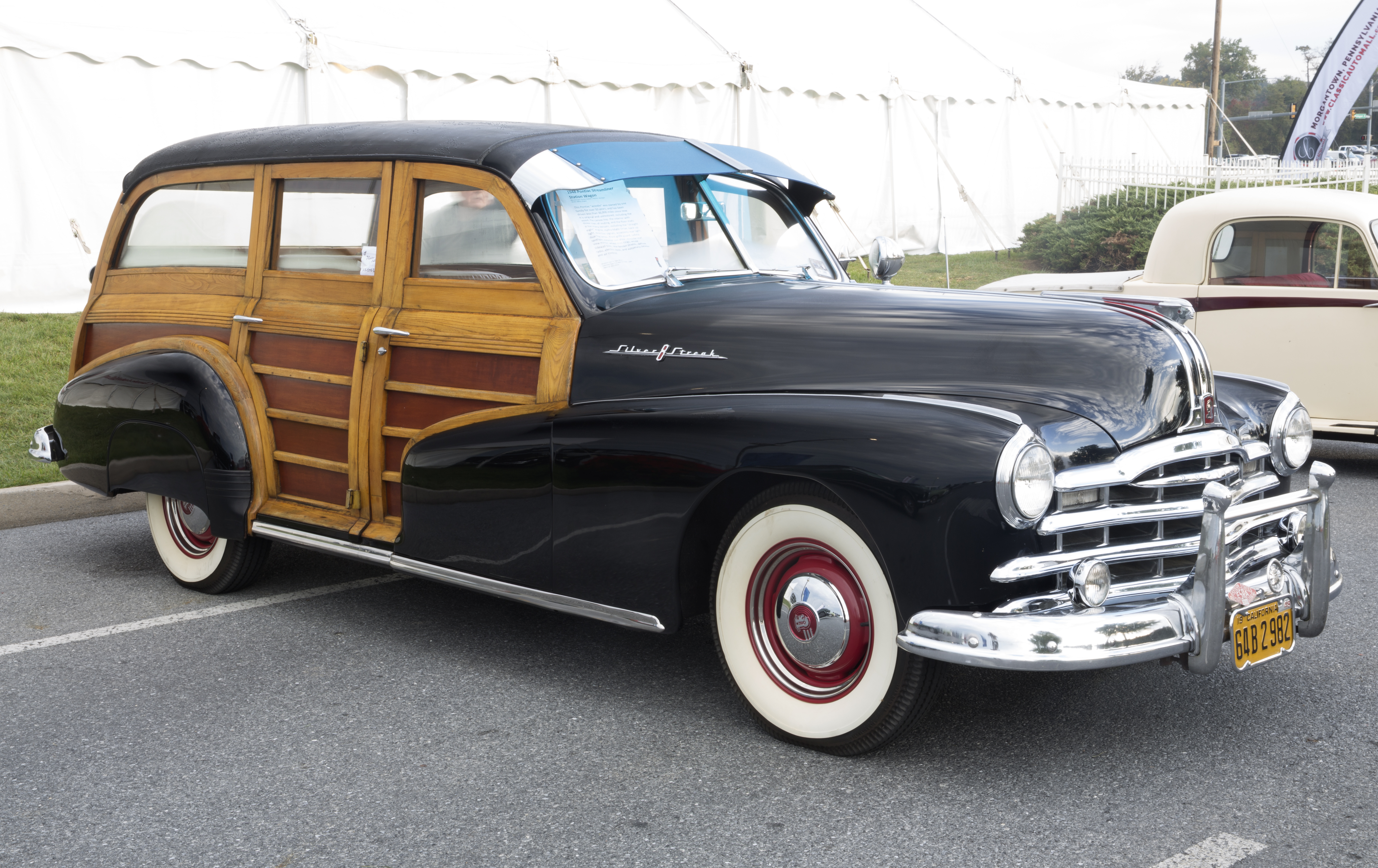 A 1948 Pontiac Streamliner Woody offered for sale at Hershey 2019. Original condition (including the wood and the canvas roof), owned by one family for over 5 decades, less than 36,000 original miles since new. Straight-eight "Silver Streak" engine, three-row seats, Hydra-Matic Drive, reverse light, turn signals, dual fog lamps, front grille guard, safety spotlight, exterior sun visor, outside rear view mirror, wheel trim rings, white sidewalls, rear fender shields, "deluxe" radio, electric clock, and automatic heater/air control.